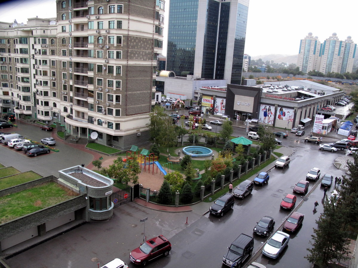 View from the window